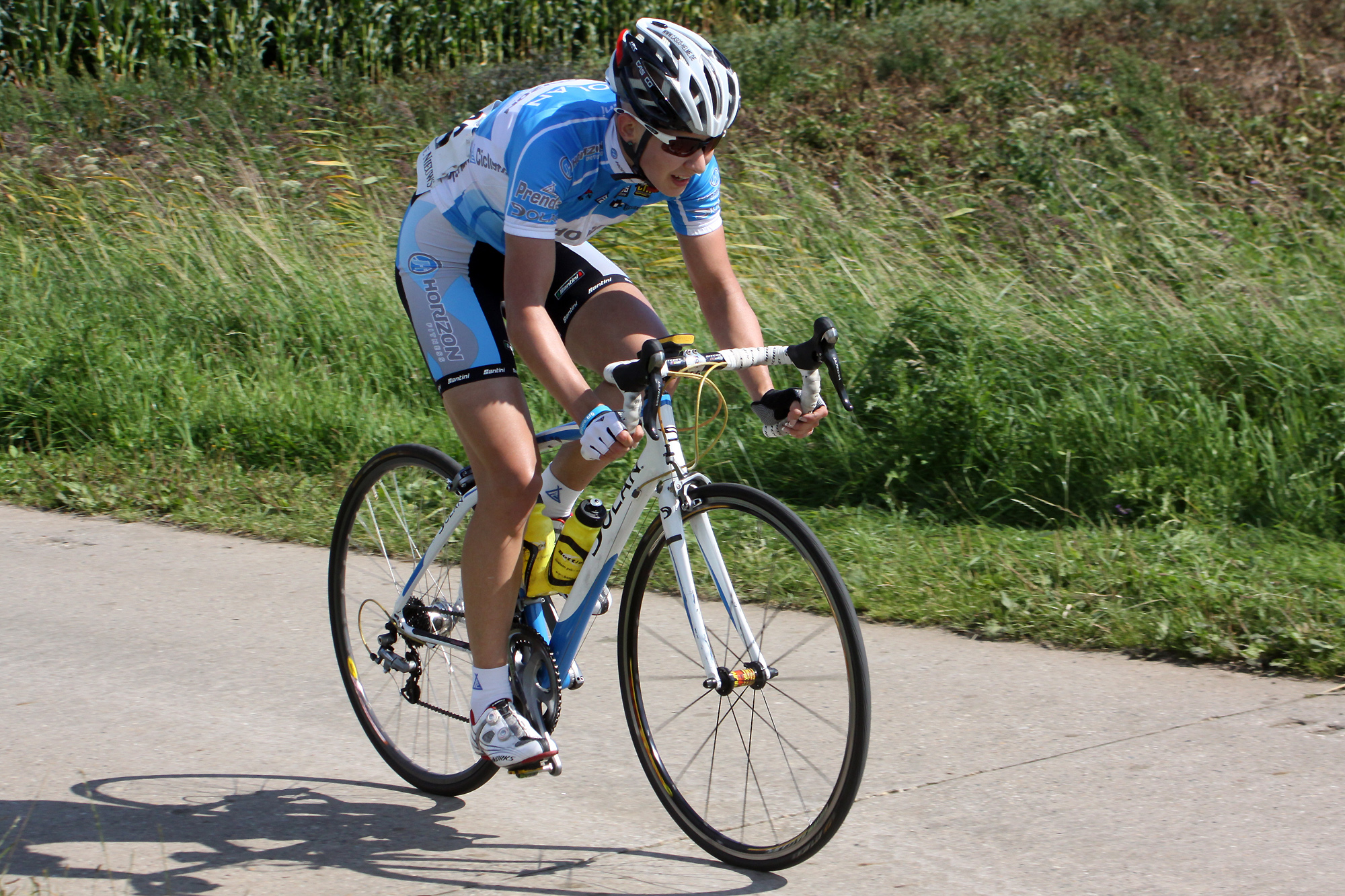 Joanna Rowsell - Sint-Gillis-Waas, Belgium - 2011